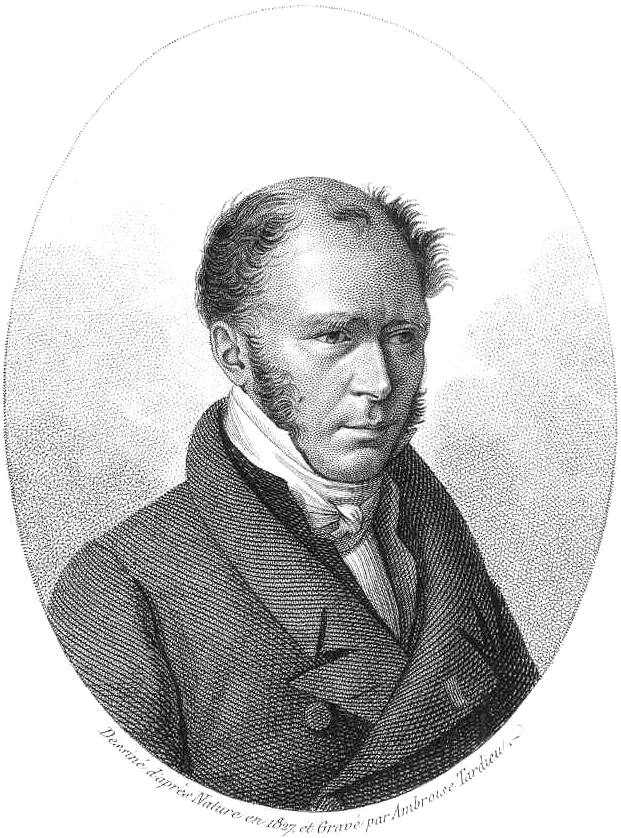 Engraved portrait of Alexandre Henri Gabriel de Cassini. Engraved by Ambroise Tardieu in Paris, 1827.